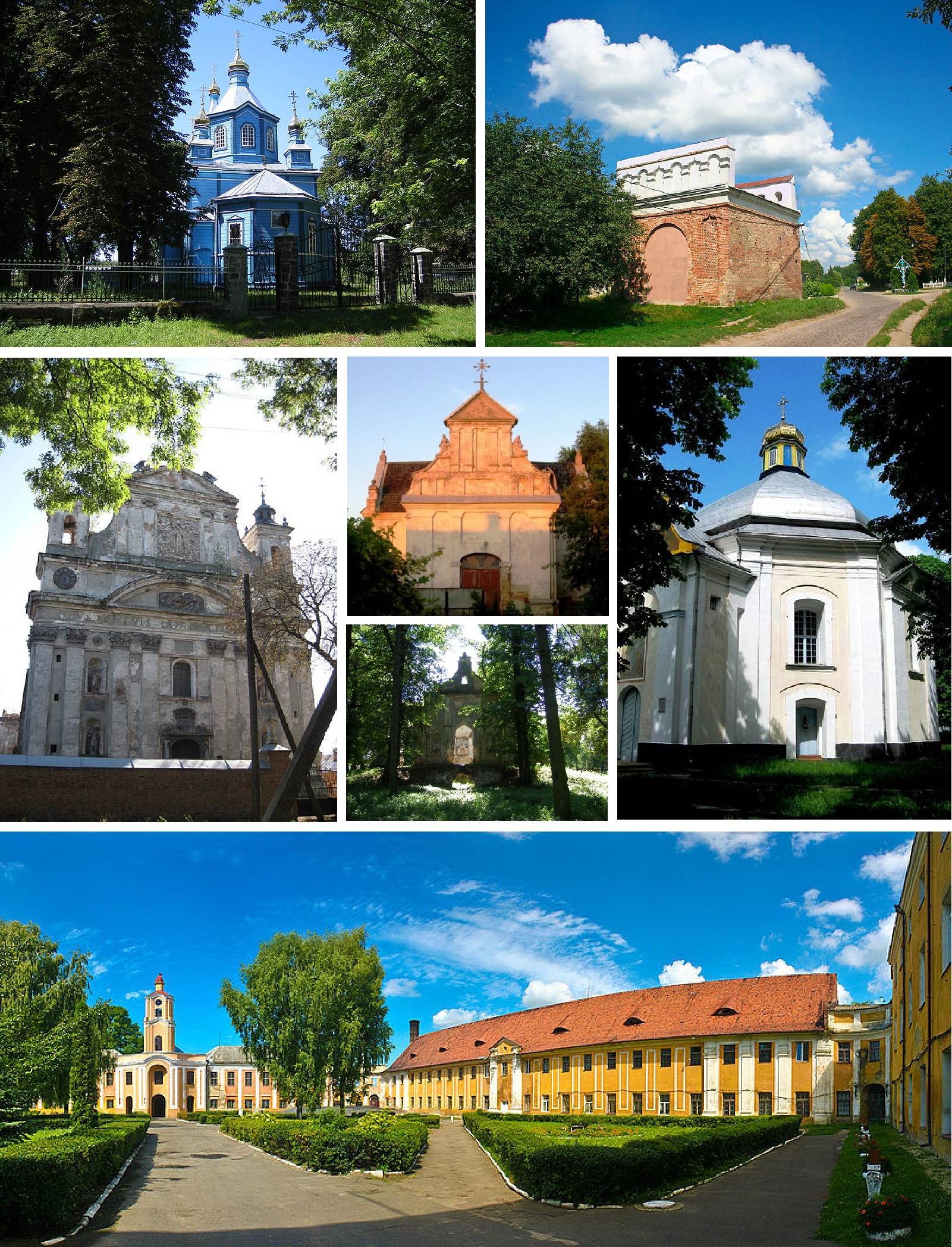 Collage of photos of famous monuments in Olyka